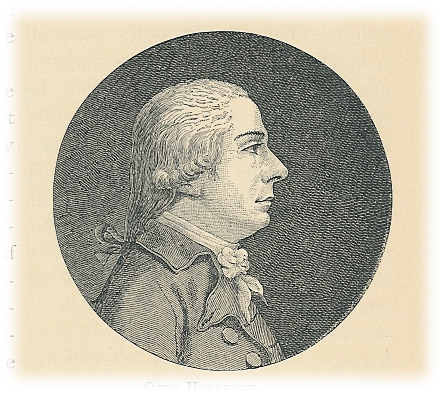 Otto Horrebow